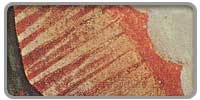 Saulės spinduliai